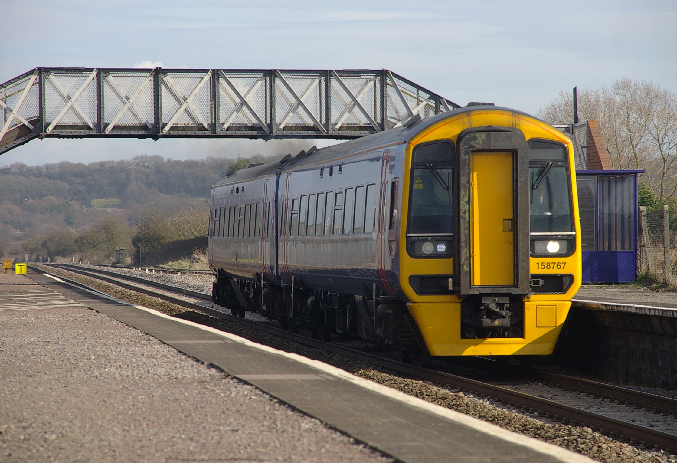 158767 passes through Pilning railway station on its way to Cardiff Central.